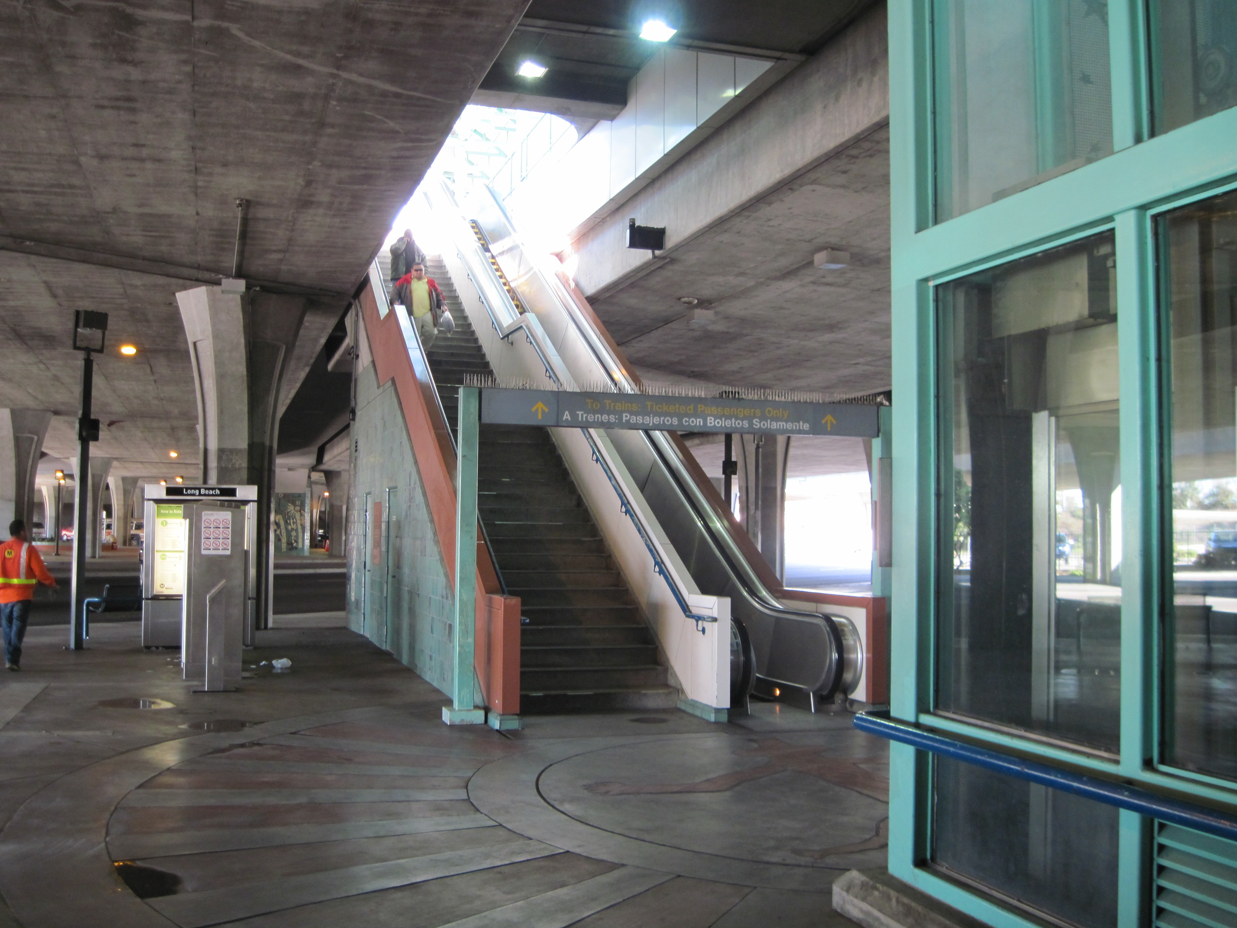 A staircase and escalator lead to the elevated platform of the Los Angeles County Metropolitan Transportation Authority's Long Beach station, serving the Metro Green Line in Lynwood, California, USA.